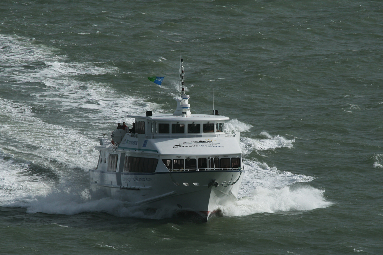 Port Fromentine, a French ferry operated by Company Vendée.